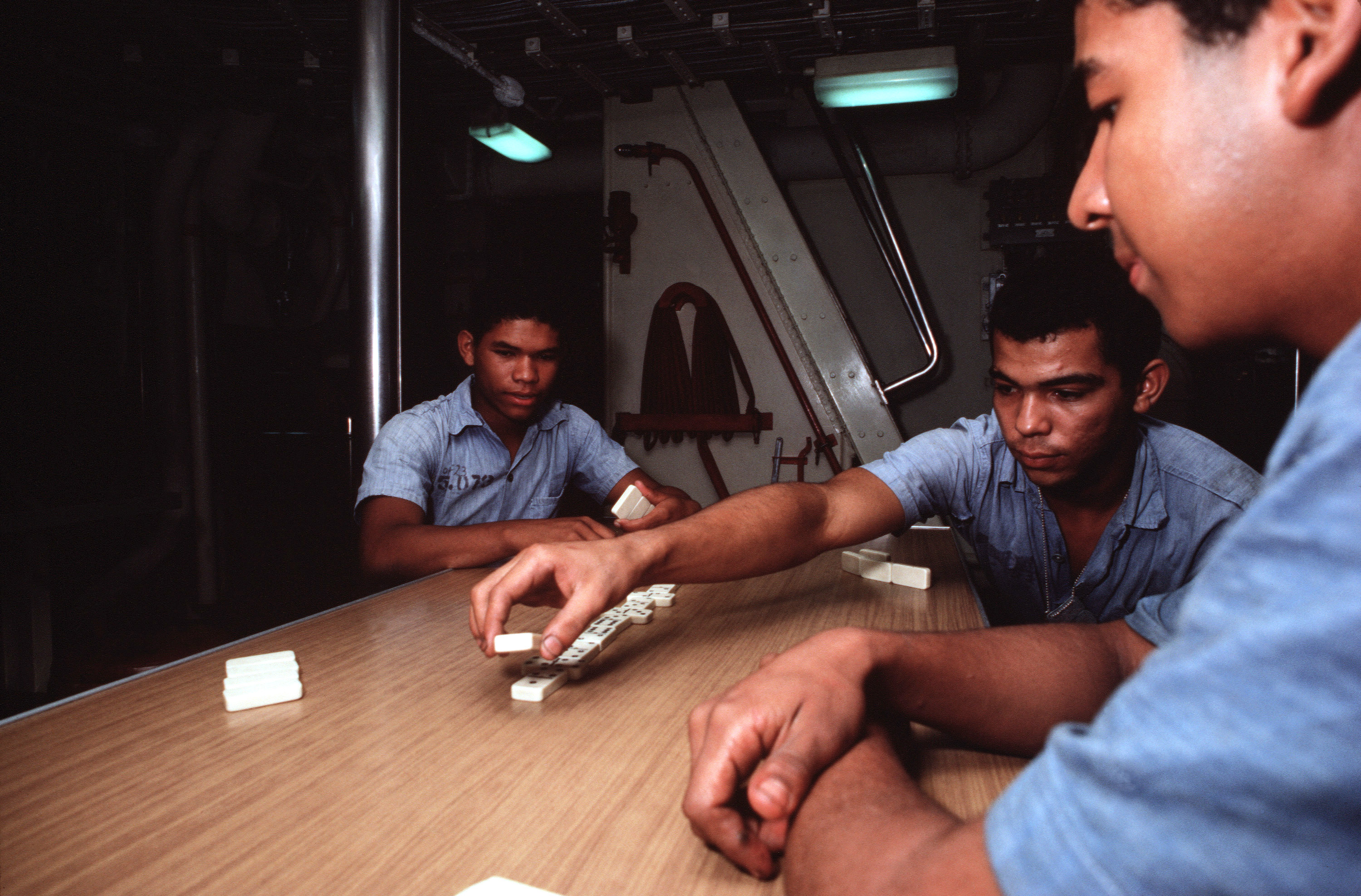 Crewmen aboard the Venezuelan frigate GENERAL URDANETA (F 23) spend off-duty time playing a game of dominoes during Operation UNITAS XXV.